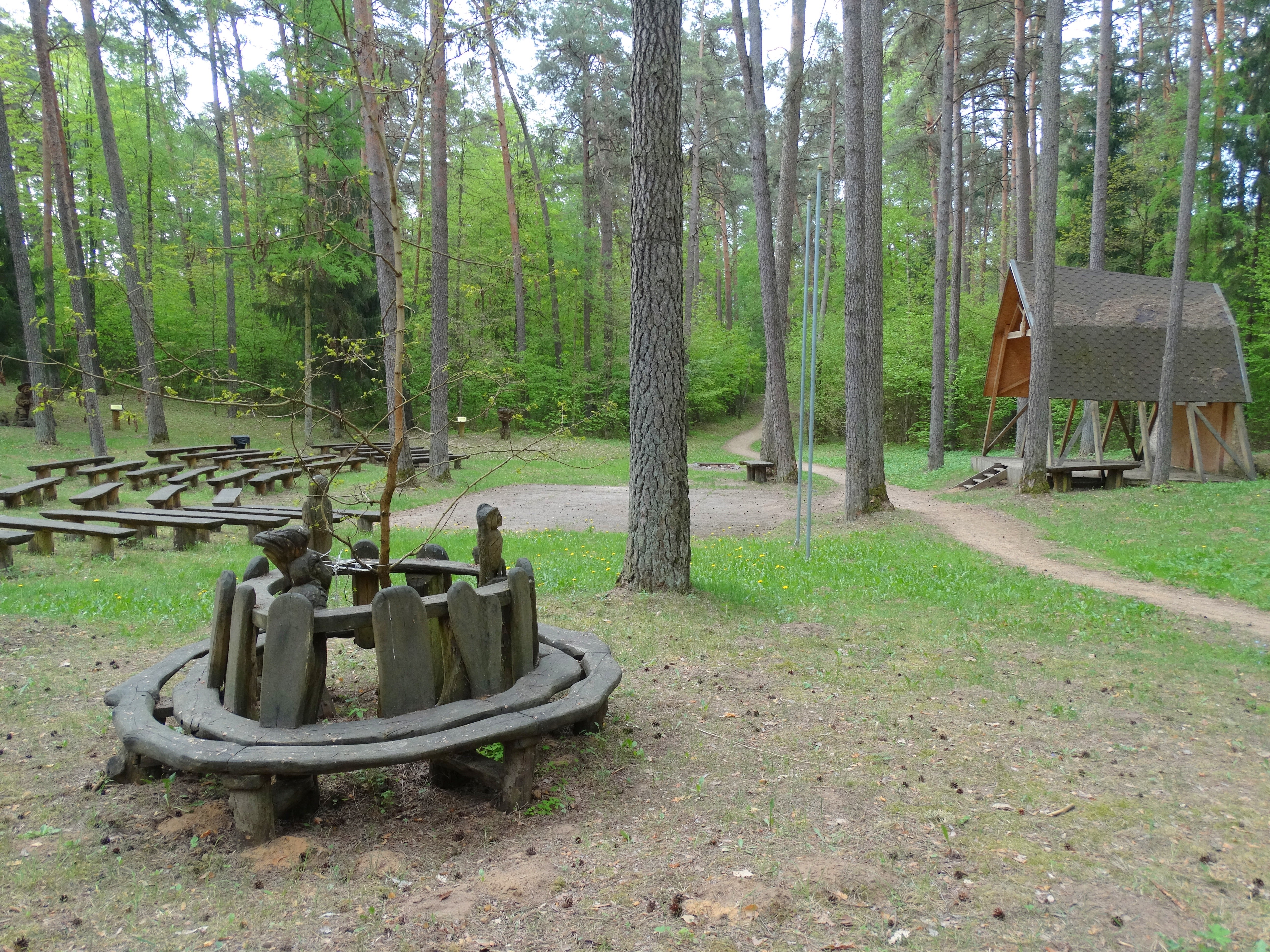 Rozalimas forest, educational walkway, Pakruojis District, Lithuania